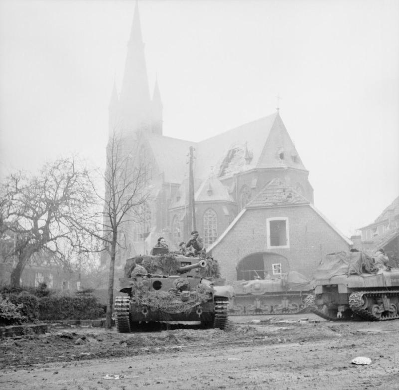 The British Army in North-west Europe 1944-45 A Cromwell tank of 5th Royal Inniskilling Dragoon Guards supporting infantry of the 9th Durham Light Infantry and their Kangaroo APCs in Weseke, 29 March 1945. 7th Armoured Division had been reorganised into battlegroups in February, and the ‘Skins’ had been matched with 9th DLI, together with ‘K’ Battery of 3rd RHA, a troop of flail tanks and some RE Churchill bridgelayers. By the end of the month, British Second Army had advanced 70 miles from its bridgehead over the Rhine.